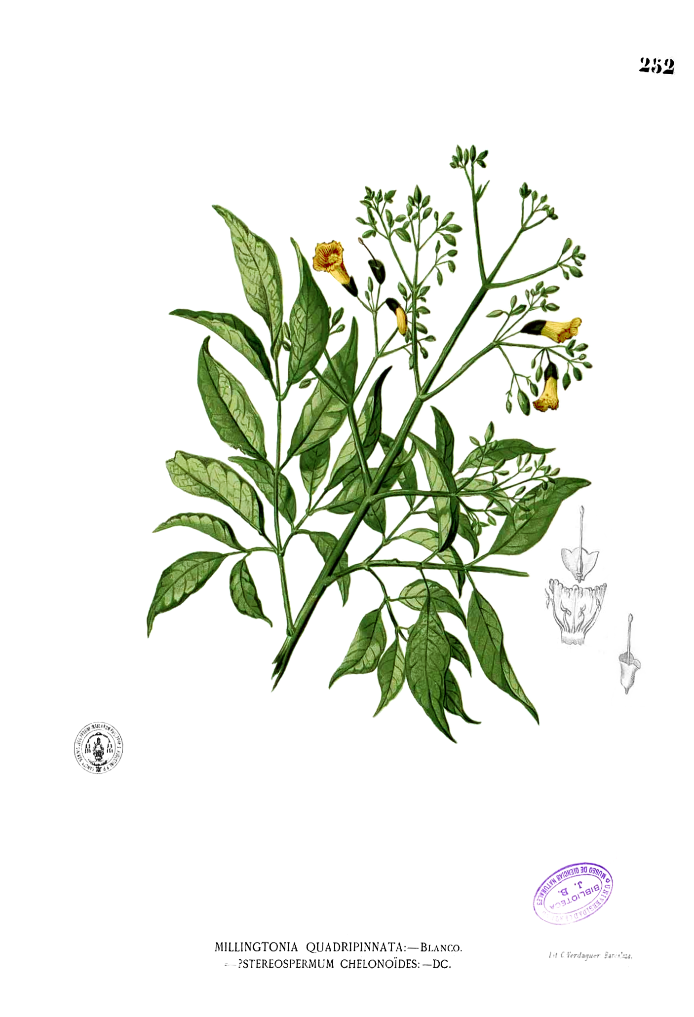 Plate from book